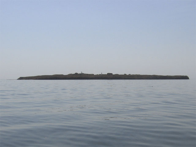 View of Berezan Island.